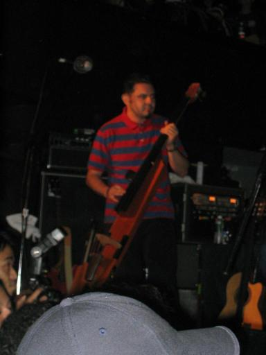 Quique Rangel of the group Café Tacuba. Taken by fabioj August 2003 in the Bowery Ballroom, NYC.